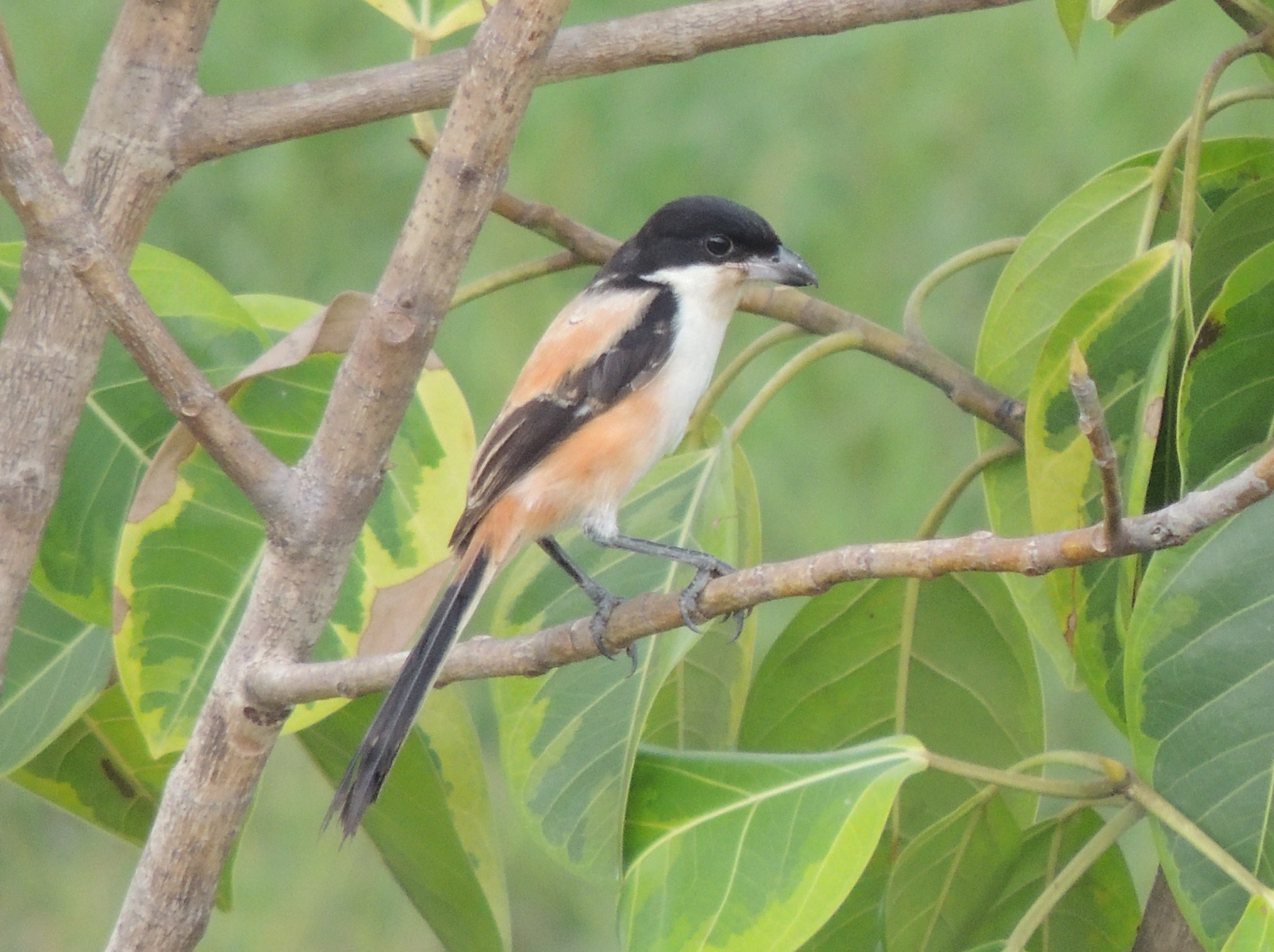 This photo is taken at Shatkhira Bangladesh.